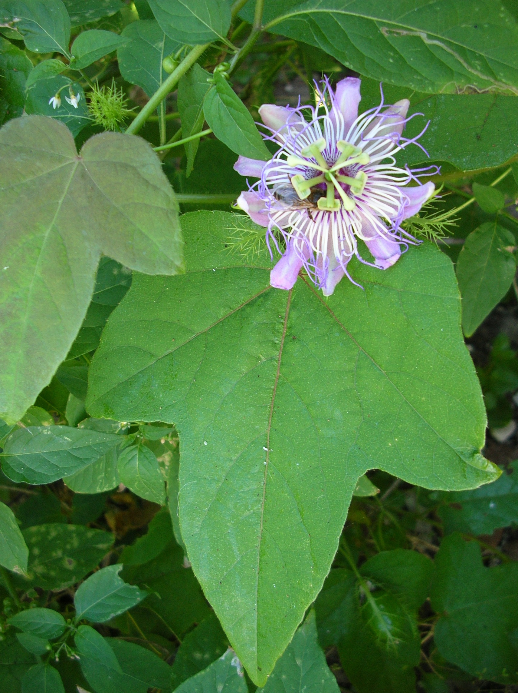 Passiflora foetida (flower and leaf). Location: Oahu, Mokuauia